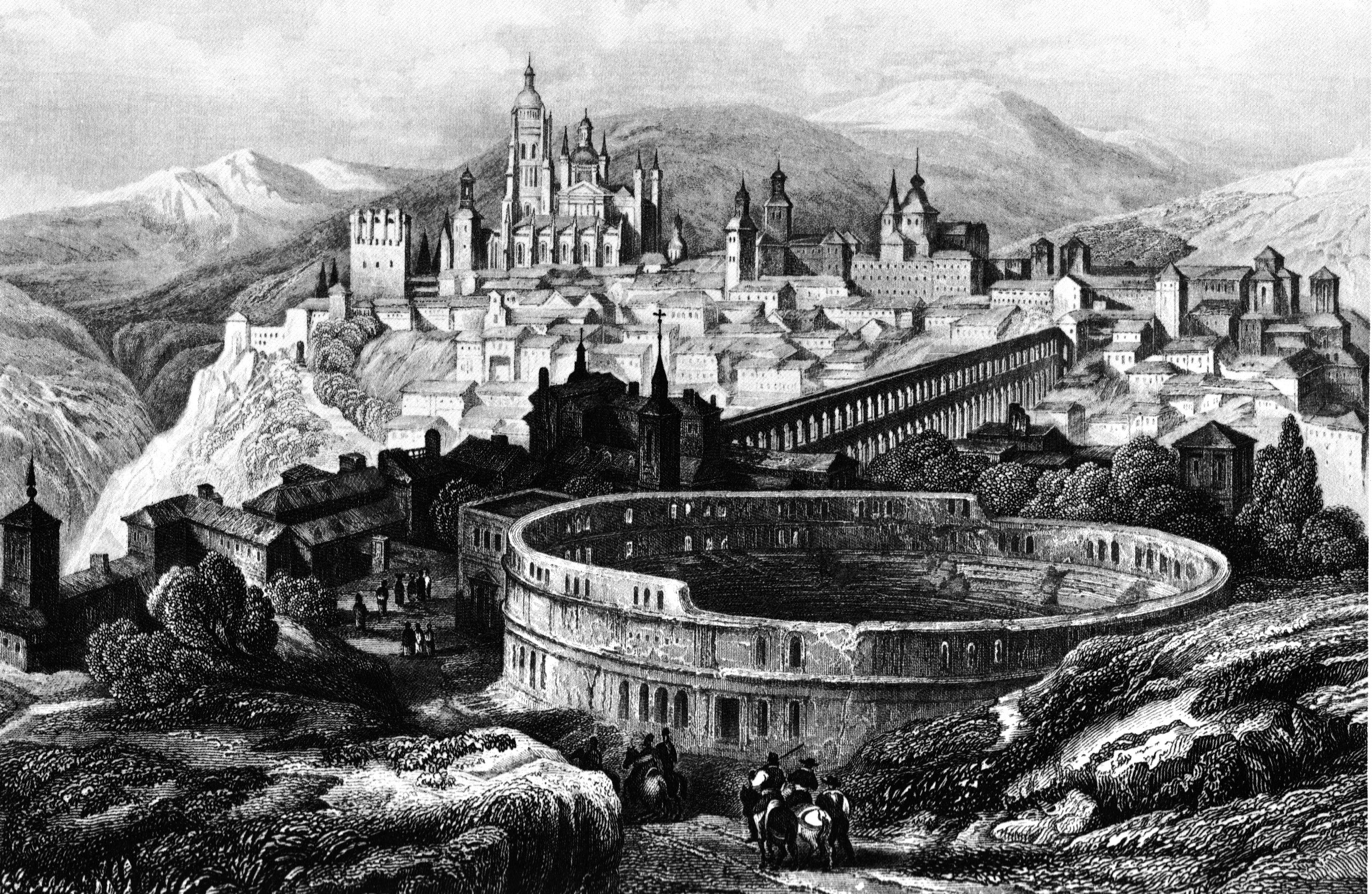 Segovia, Spain — engraving, c. 1840. Bibliographic Institute Hildburghausen.